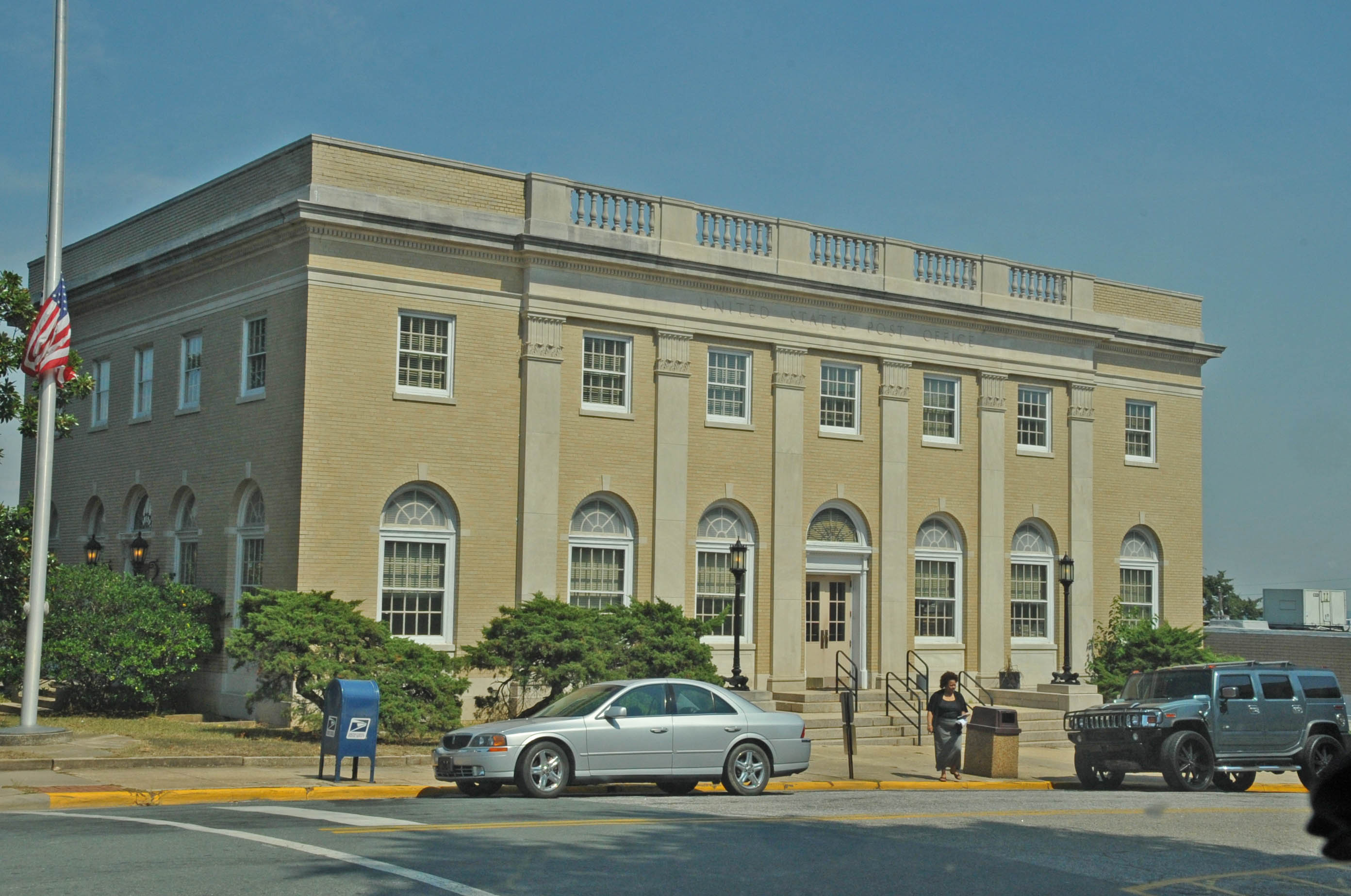 1932-1933; LATE 19TH AND 20TH CENTURY REVIVAL